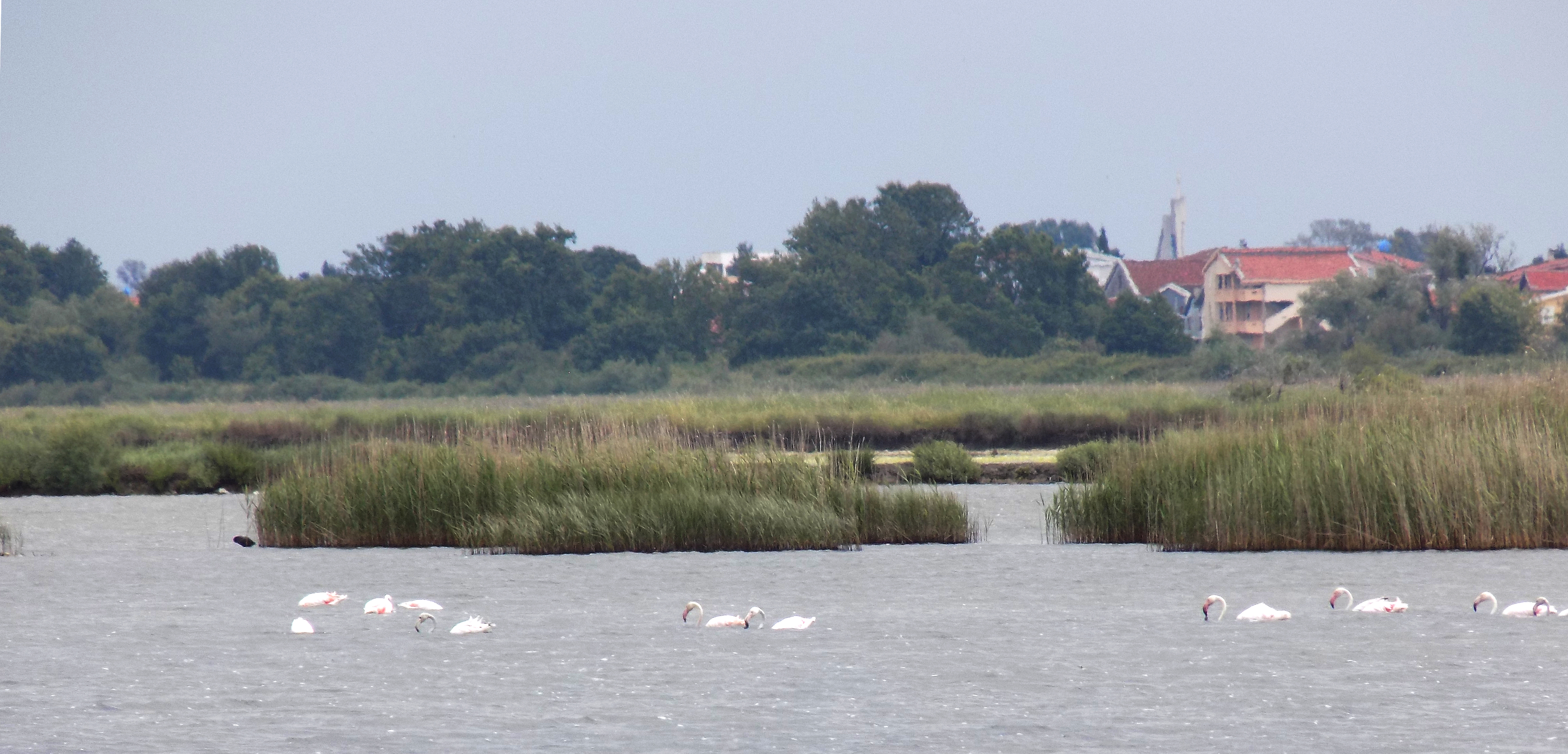 Ulcinj Salinas, important bird area - flamingos (Phoenicopteridae) in the saltpans